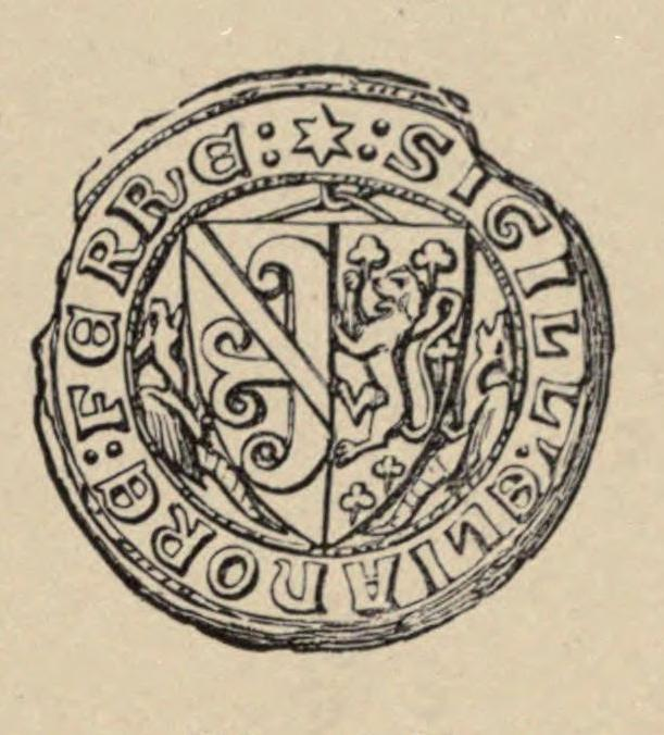 Engraving (1854) of the Seal of Eleanor Ferre (died 1349), wife of Sir Guy Ferre the younger (died 1323), showing impalement of Ferre and Mountender arms